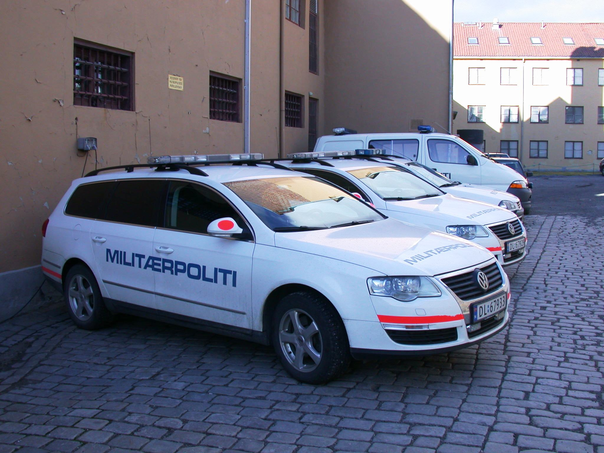 Norway military police cars, old livery